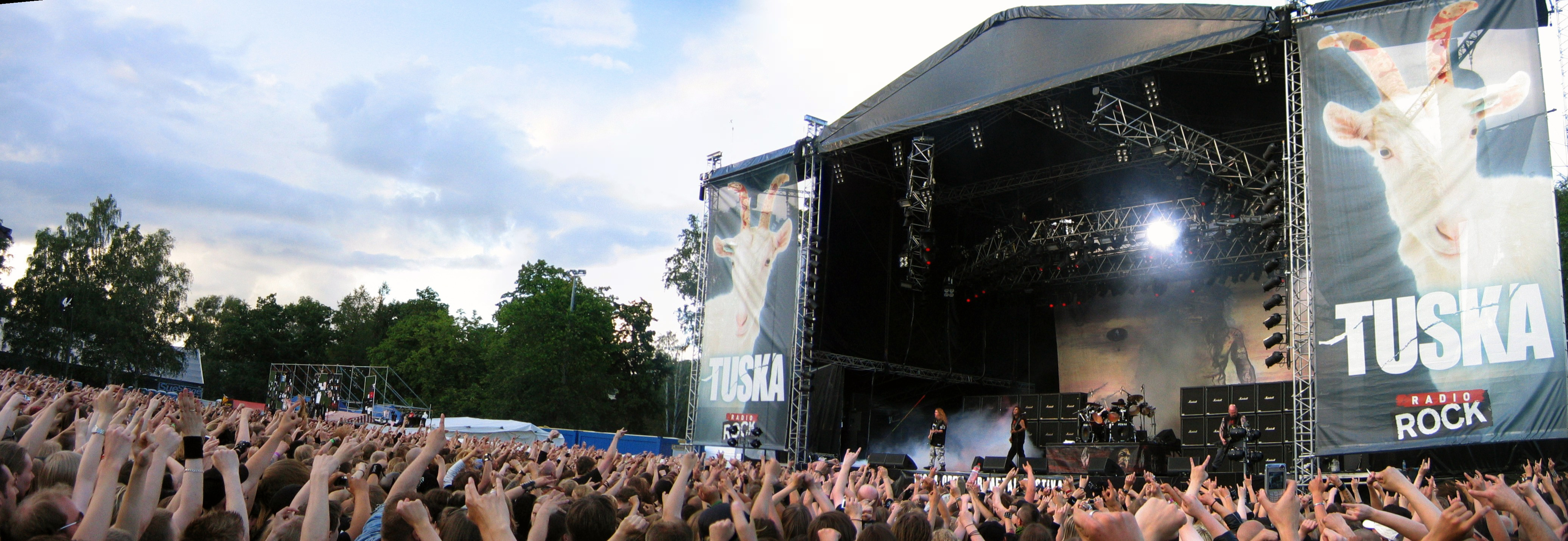 Slayer playing at Tuska Open Air Metal Festival 2008 (Helsinki, Finland) as the main act on sunday.